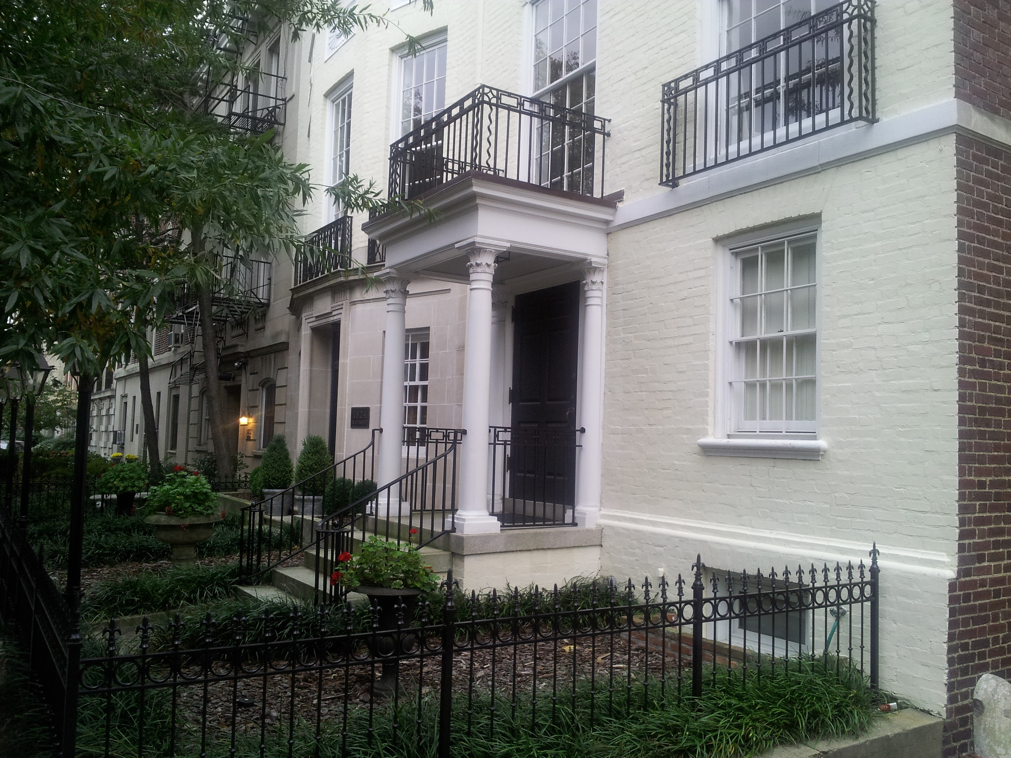 Georgia (the country - in November 2013 started the process of acquiring this building to house its embassy -- i.e., its office/working space. (See